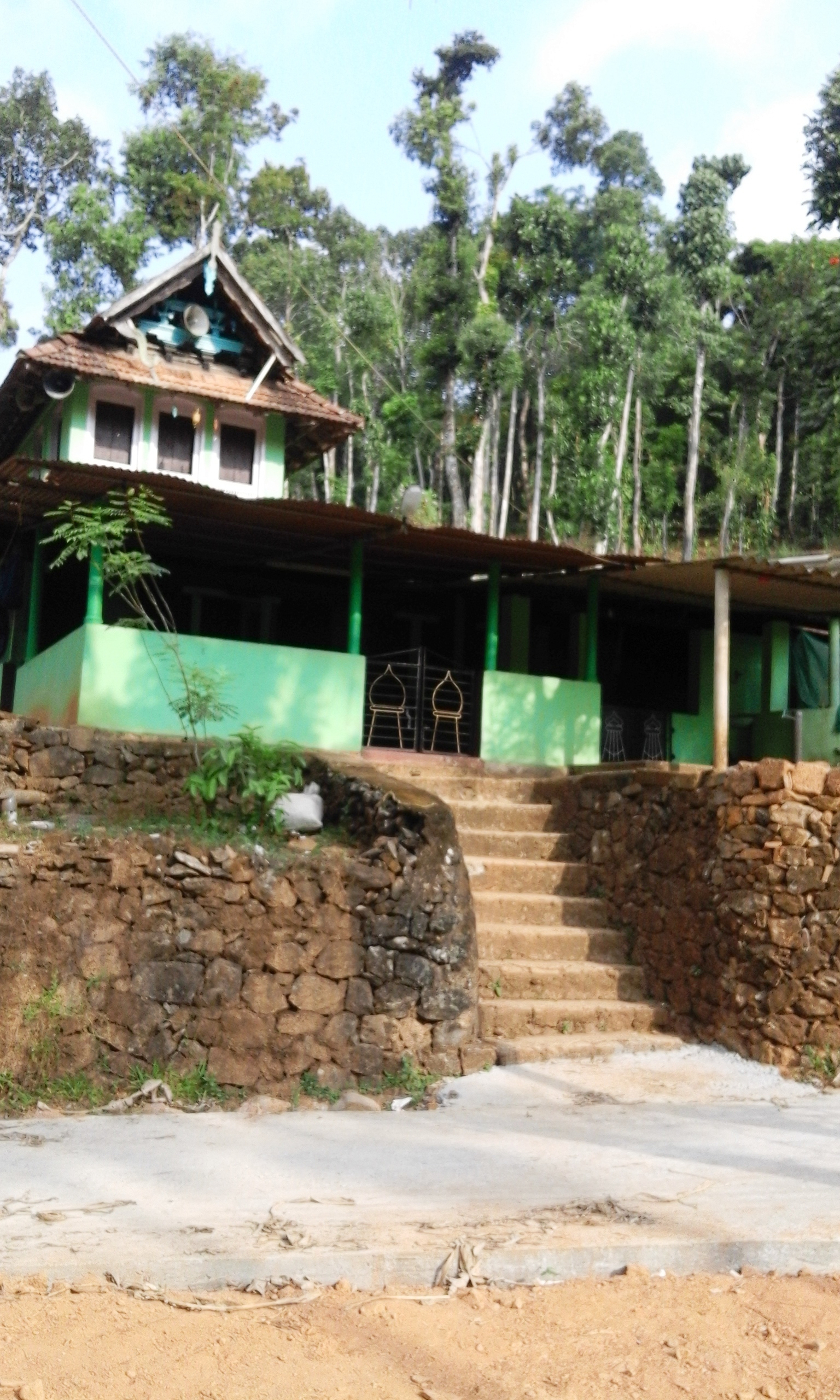 Boys Town to Nedumpoil road, Wayanad district, Kerala province, India.